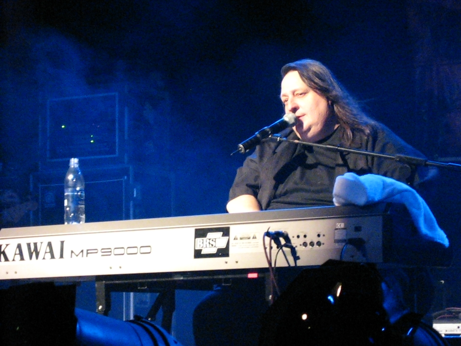 The man himself. Jon Oliva's Pain on stage at ProgpowerUK 2, Cheltenham, England. March 31st 2007.